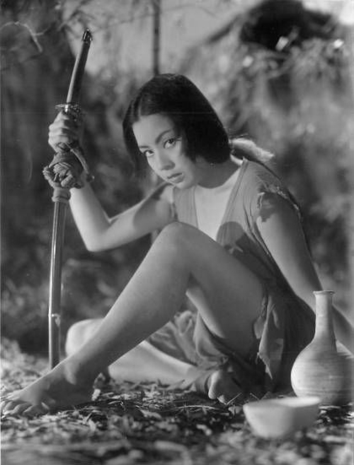 Machiko Kyō in Bijo to tozoku (1952)